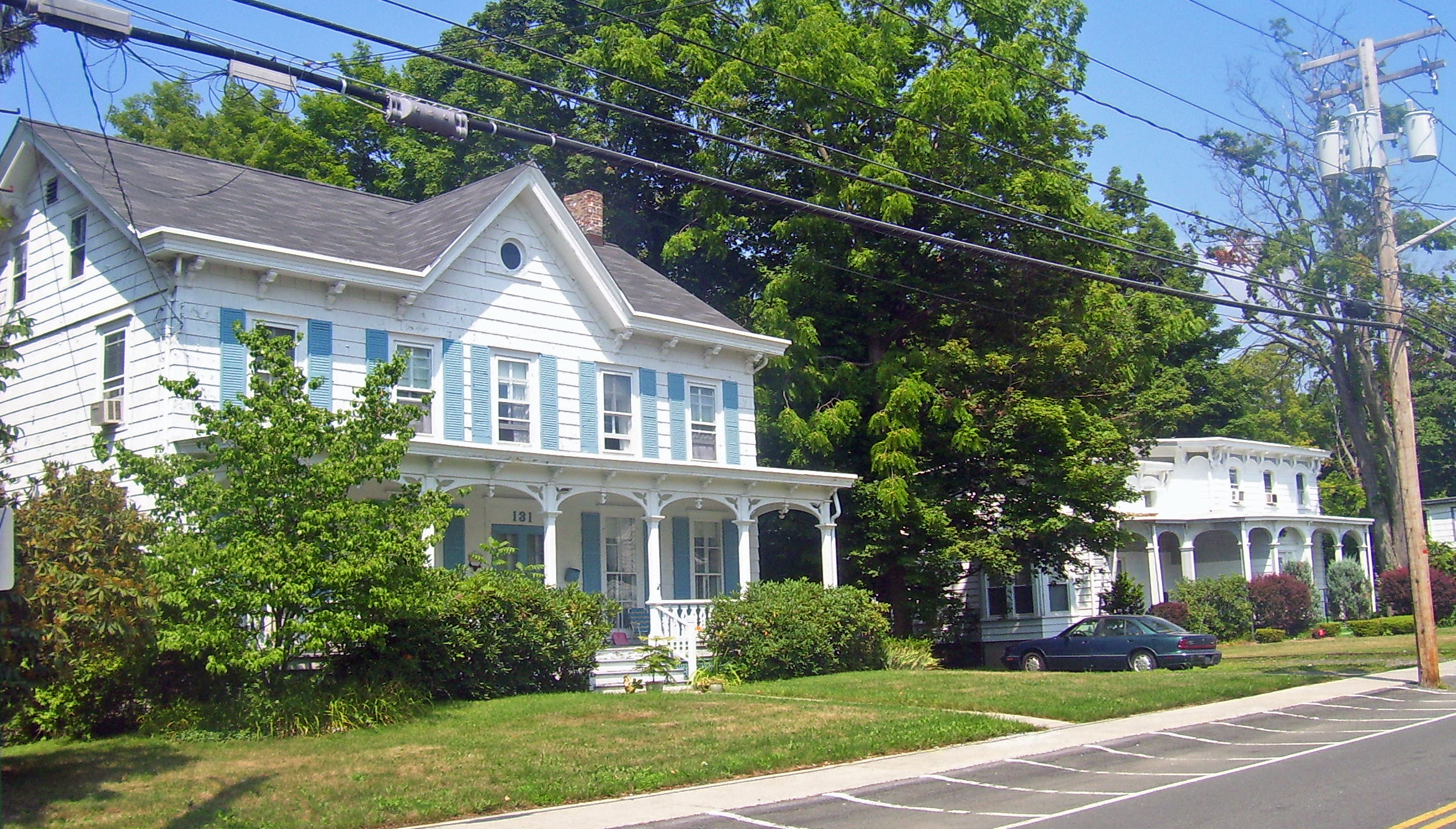 Houses built in mid-19th century along Stage Road in Monroe, NY, USA, historic district.